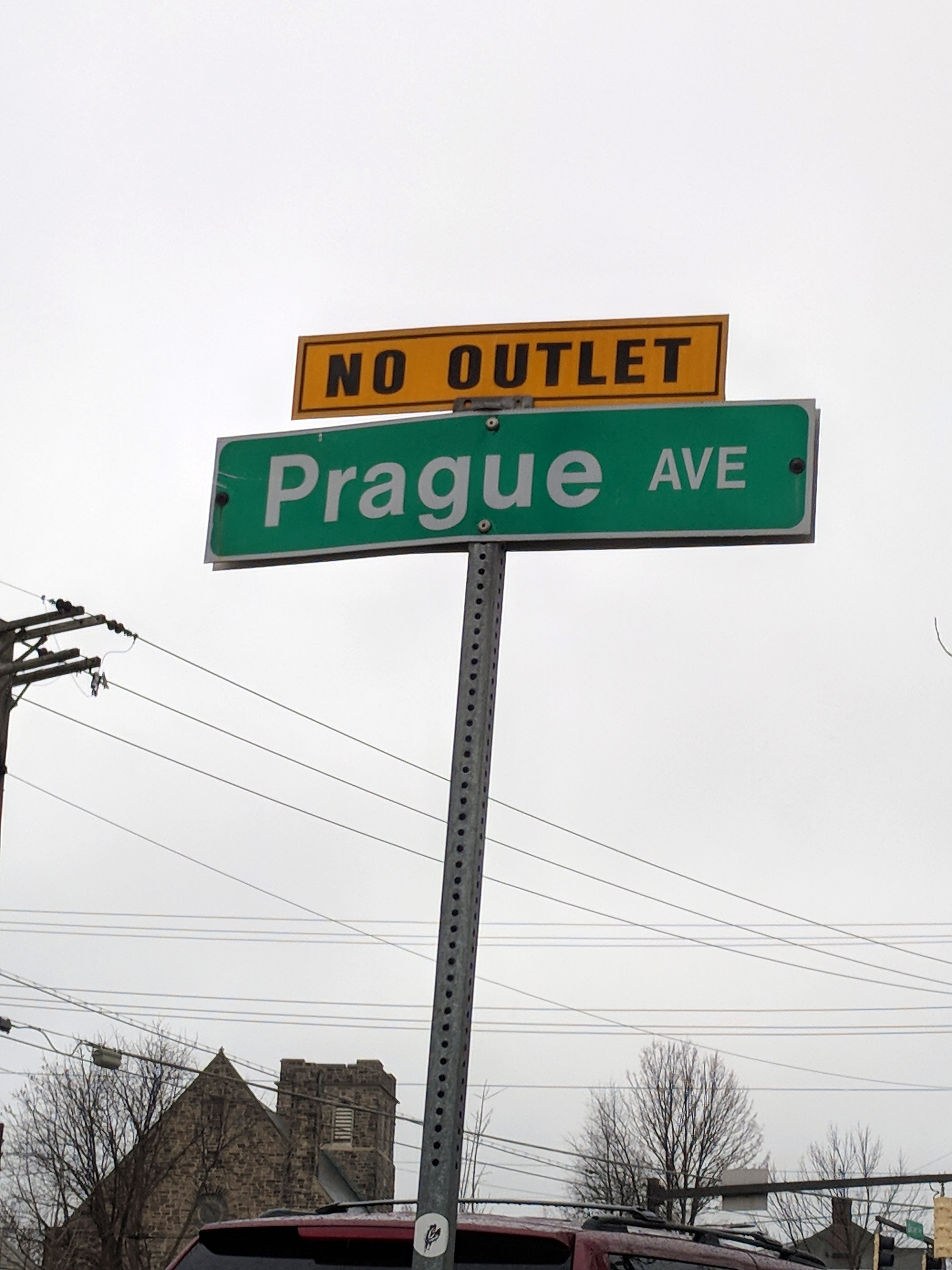 Prague Avenue, a street off of Route 1 in Raspeburg/Overlea named after Prague, Czech Republic. East Baltimore was once home to a large Czech immigrant community.